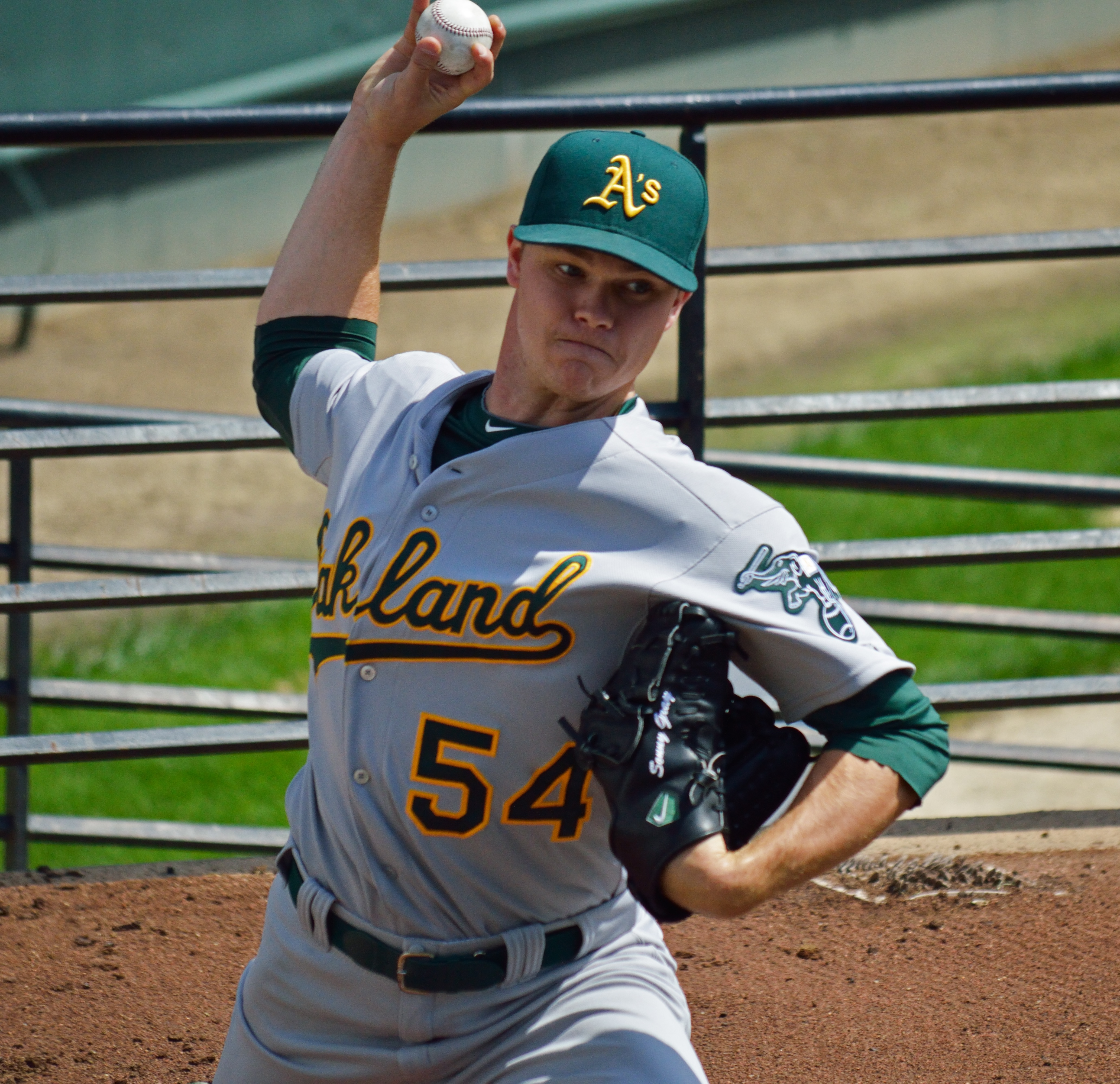 The Baltimore Orioles host the Oakland A's. The Orioles defeated the A's 10-3, with home runs from J.J. Hardy, Nick Markakis, and Nate McLouth. August 25th, 2013 Photo © Terry Dobbins 2013 **DO NOT USE WITHOUT MY PERMISSION**